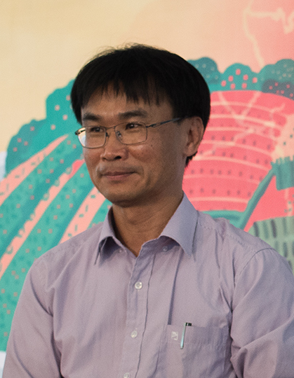 授權方式及範圍：中華民國總統府│政府網站資料開放宣告 Authorization Method & Scope: Office of the President, Republic of China (Taiwan) | Government Website Open Information Announcement